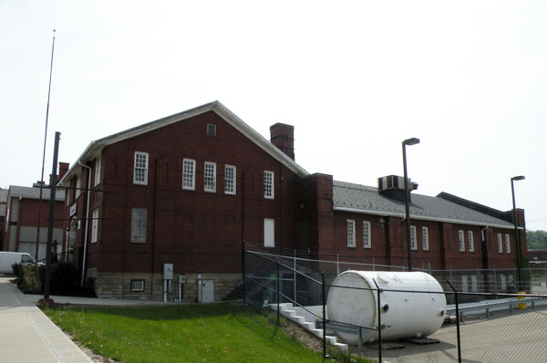 Picture of the Washington Armory located at 78 West Maiden Street in Washington, Pennsylvania, on May 1, 2010. Built around 1915 in Colonial Revival style by W.G Wilkins Co. and W.M.T. Blair and Son, the armory is listed on the National Register of Historic Places. It is now called Julian's Banquet Hall.